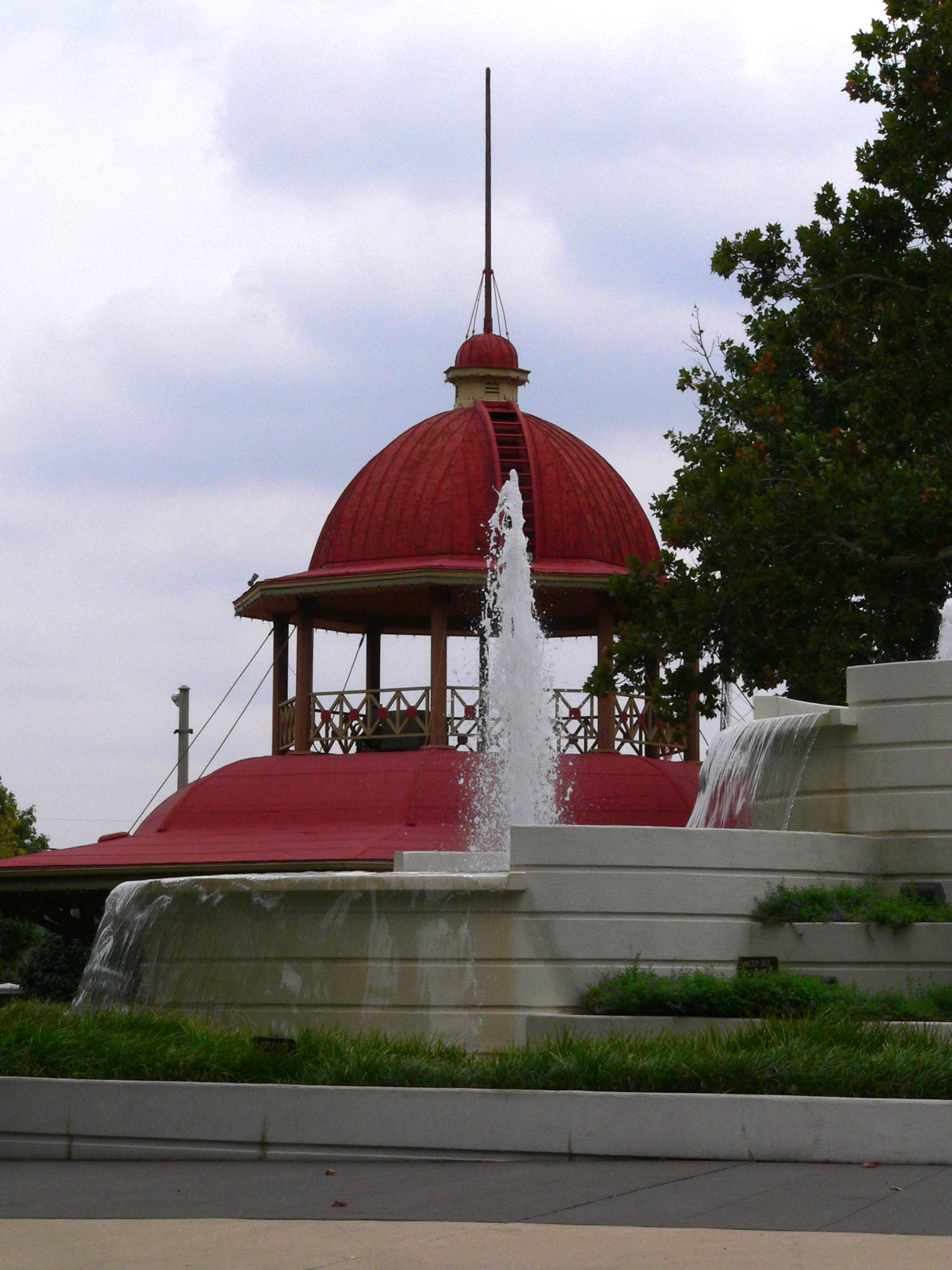 Decatur, Illinois Transfer House